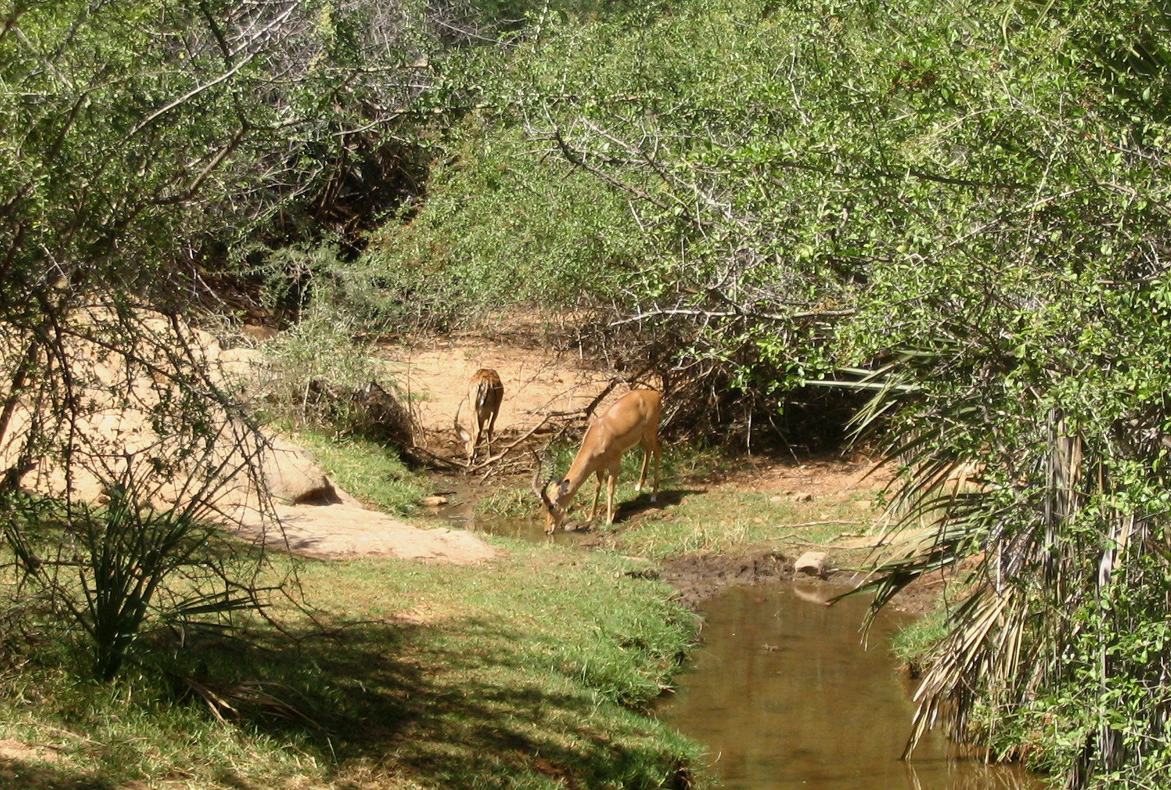 Two Aepyceros melampus melampus (Common impala) males (rams) drinking from a pond in Tsavo West National Park, Kenya.